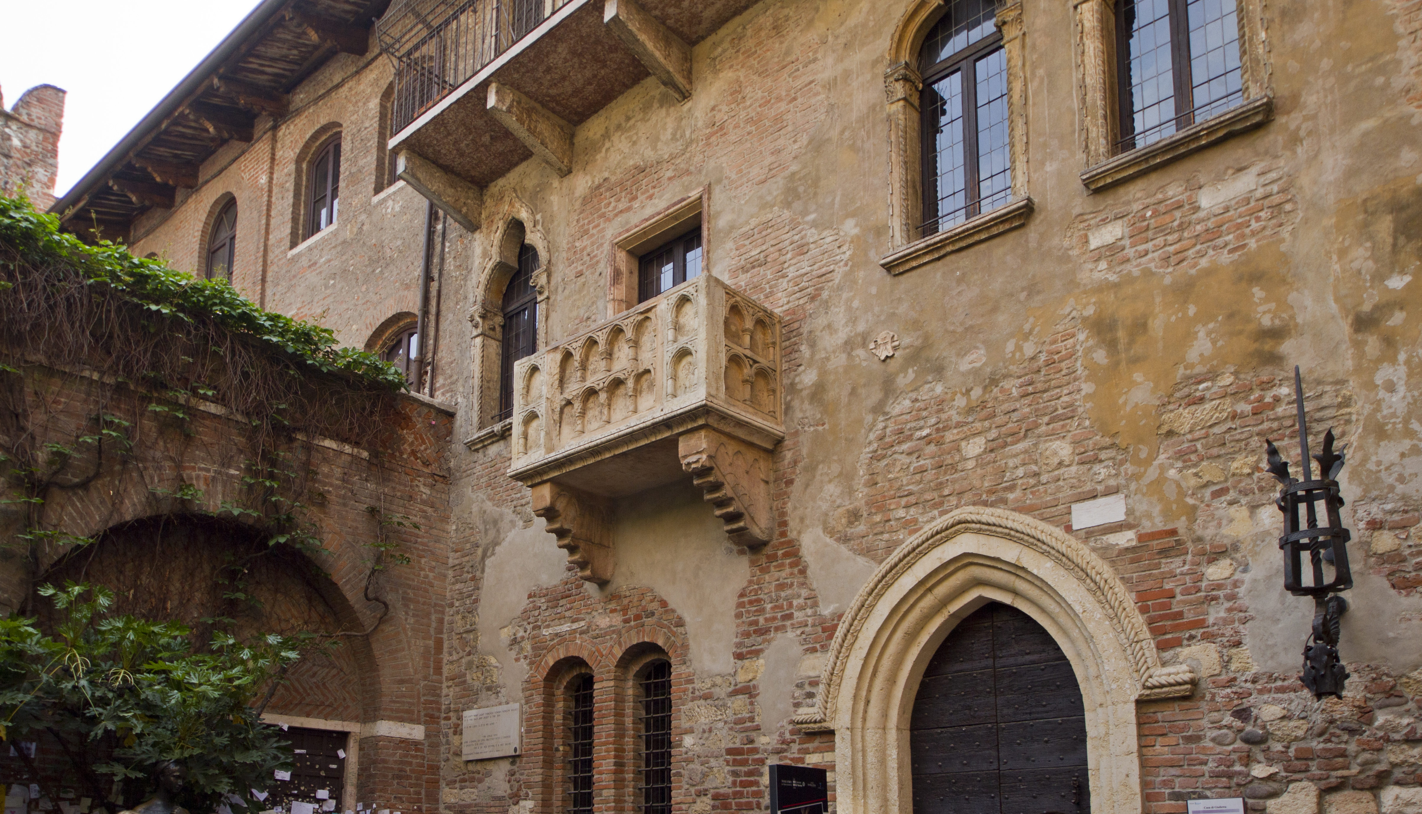 Juliets balcony, Verona VR, Veneto, Italia